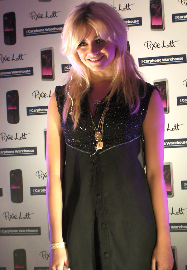 The English singer Pixie Lott